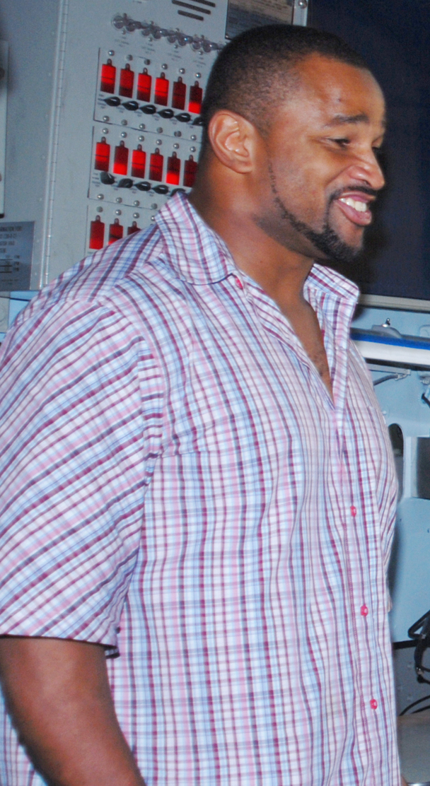 PEARL HARBOR, Hawaii (Feb. 3, 2008) Operations Specialist 2nd Class Chancer Burton enjoys a joke with Lorenzo Neal, left, fullback for the San Diego Chargers, during a tour of the Ticonderoga-class guided-missile cruiser USS Chosin (CG 65). Neal and teammates Carlos Polk and Kassim Osgood were invited aboard the ship for lunch and to watch the 2008 Super Bowl with the crew.